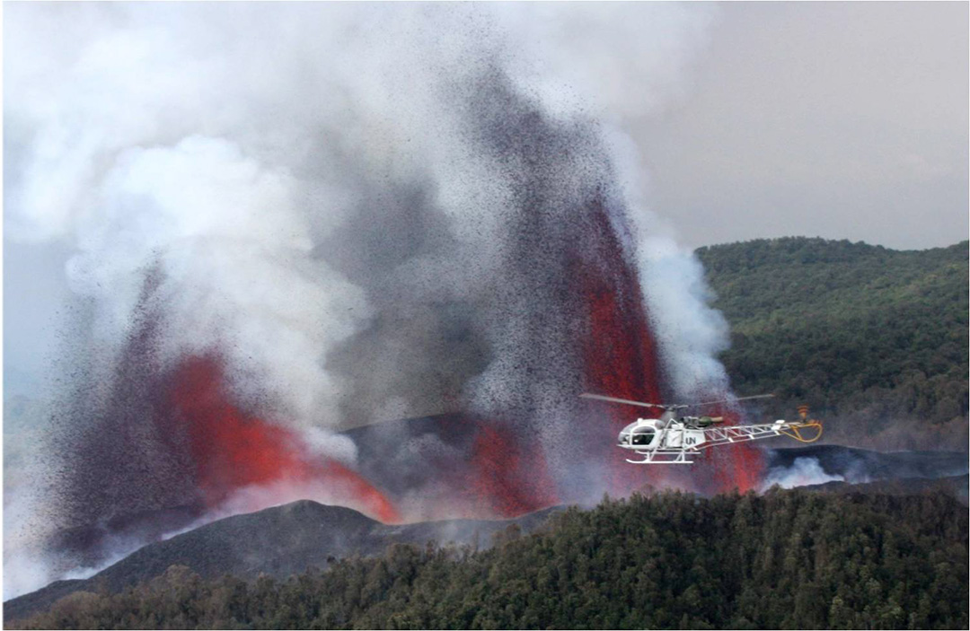 A Lama helicopter flown by a MONUSCO aircrew prepares to land inside the Nyamuragira volcano crater on 31 January 2014, in order to conduct seismologic studies. At an altitude of 9, 800 ft., the helicopter landed some 400 m away from the lava well to drop the volcanologists who were to conduct the study. Later, they were safely airborne and brought to their base at MONUSCO Headquarters in Goma. Nyamuragira and Nyiragongo are two active volcanoes, both located in the vicinity of Goma, overlooking Lake Kivu at the border with Rwanda. Nyamuragira has been described as Africa's most active volcano and has erupted over 40 times since 1885. Photo: MONUSCO.